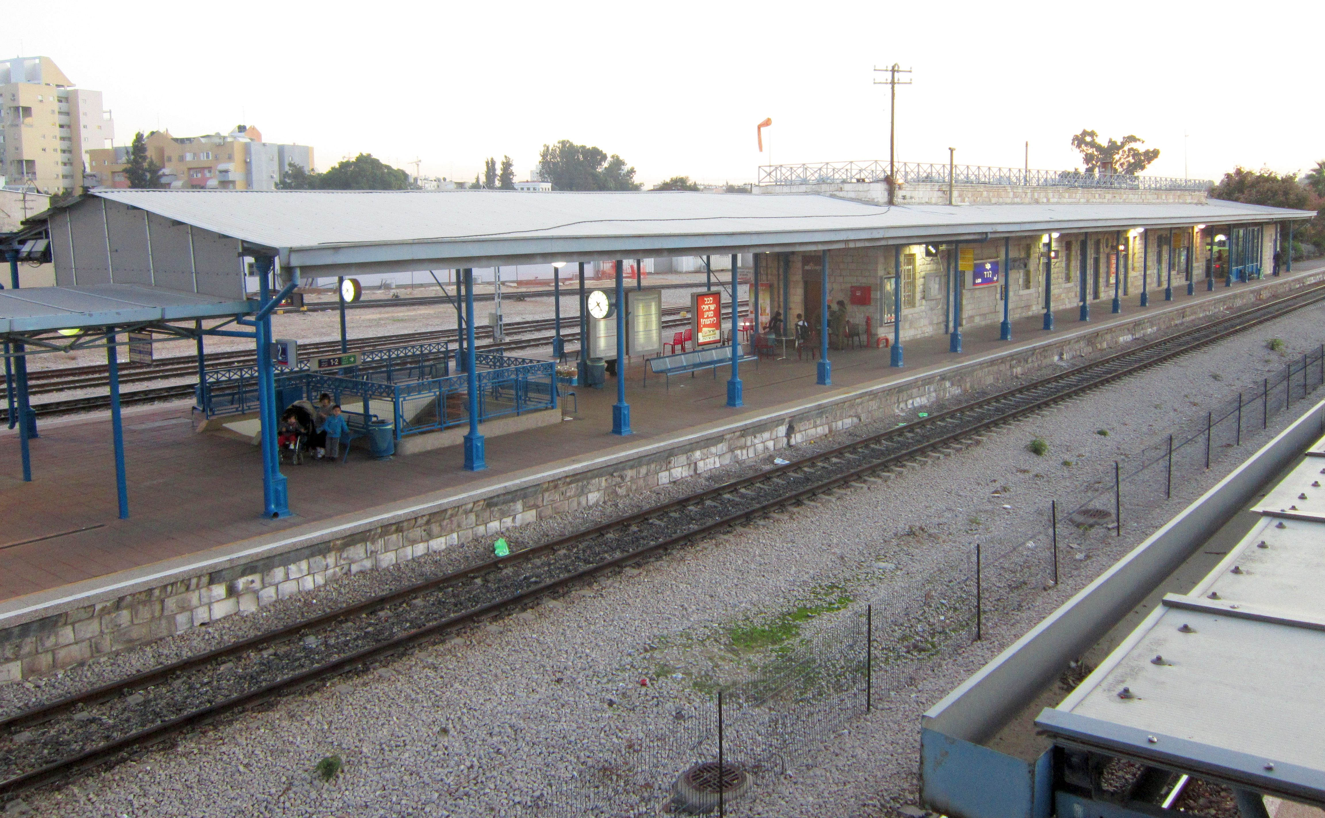 Lod Railway Station